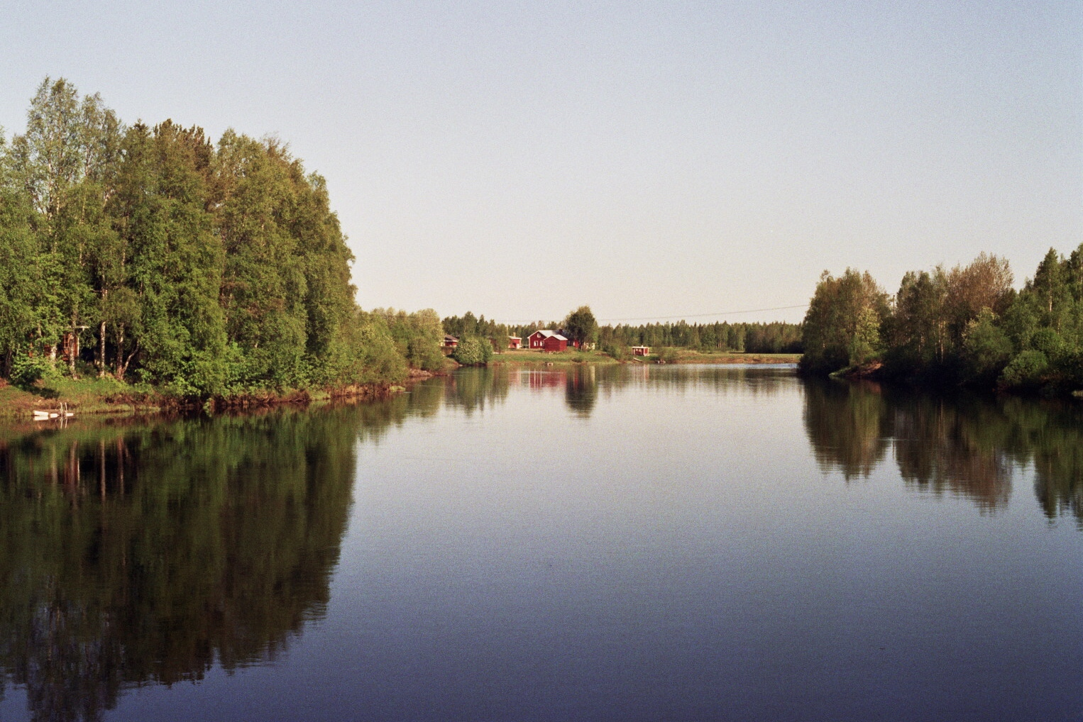 Kiiminki River in the Kiiminki municipality of Finland.